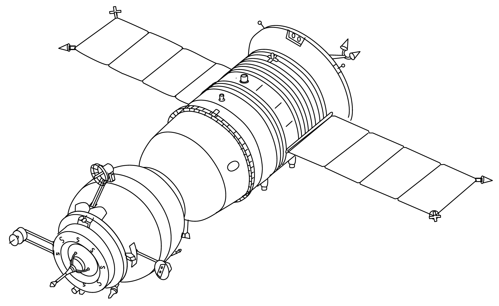 Soyuz-TM spacecraft. Compare the antennas on the orbital module to those on Soyuz-T. Differences reflect the change from the Igla rendezvous system used on Soyuz-T to the Kurs rendezvous system used on Soyuz-TM.